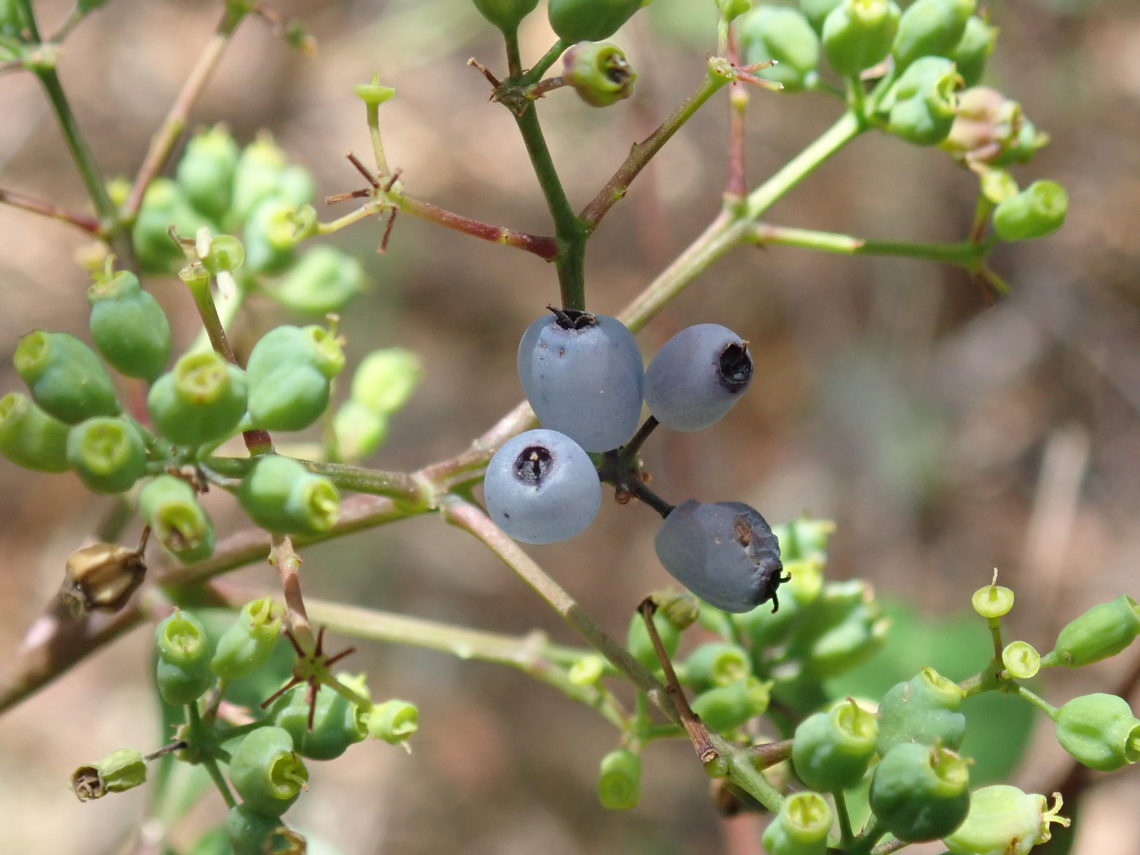 Polyscias sambucifolia, McKay Reserve, Palm Beach, NSW, 5 January 2018.